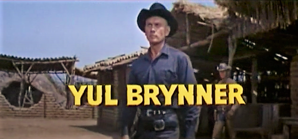 This image is a screenshot from a public domain trailer for the 1960* film, The Magnificent Seven. Trailers for movies released before 1964 are in the Public Domain because they were never separately copyrighted.